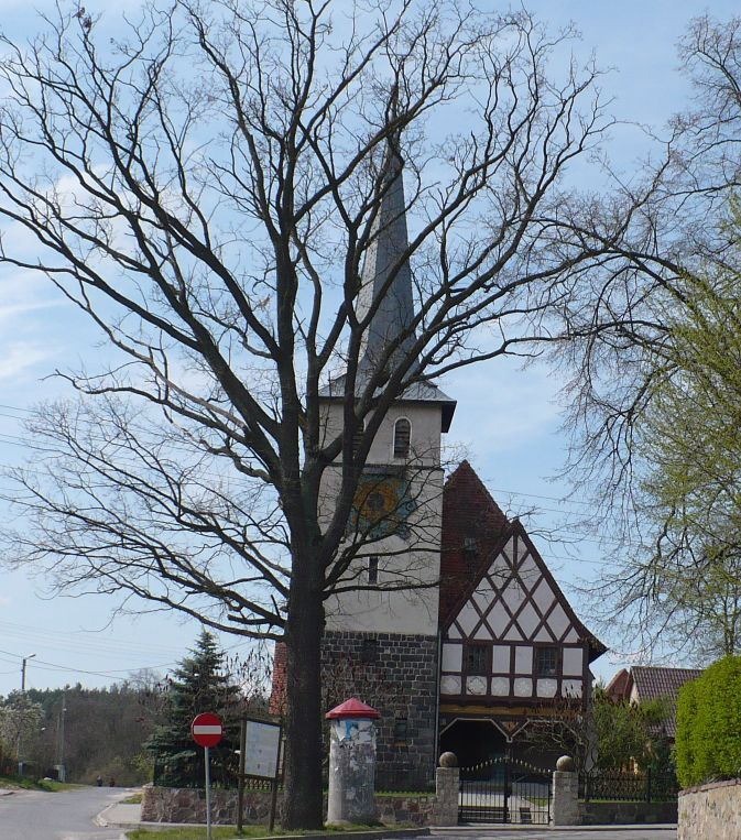 Church of Przełazy (Architect: Georg Büttner